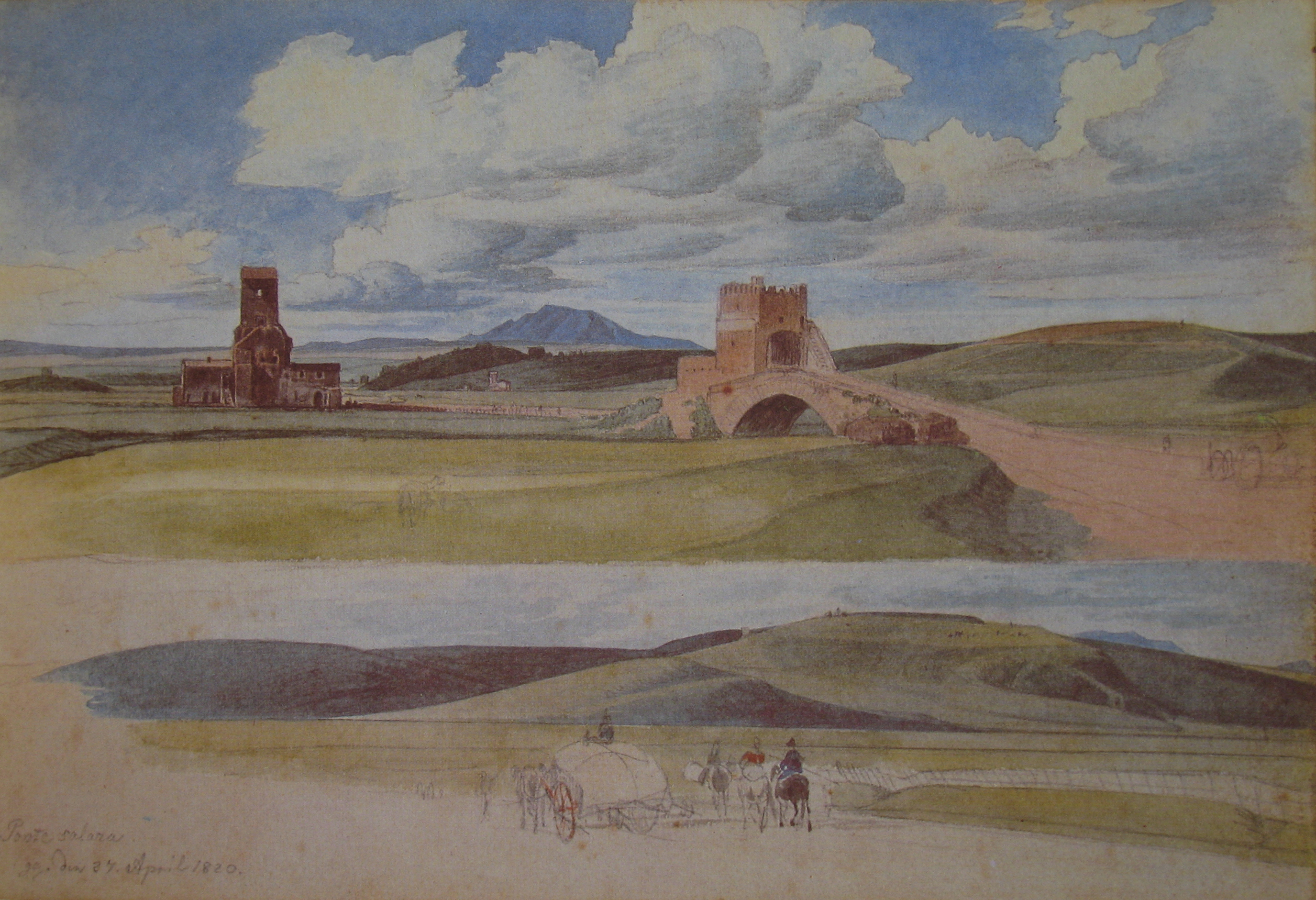 The Ponte Salario in Rome, Italy